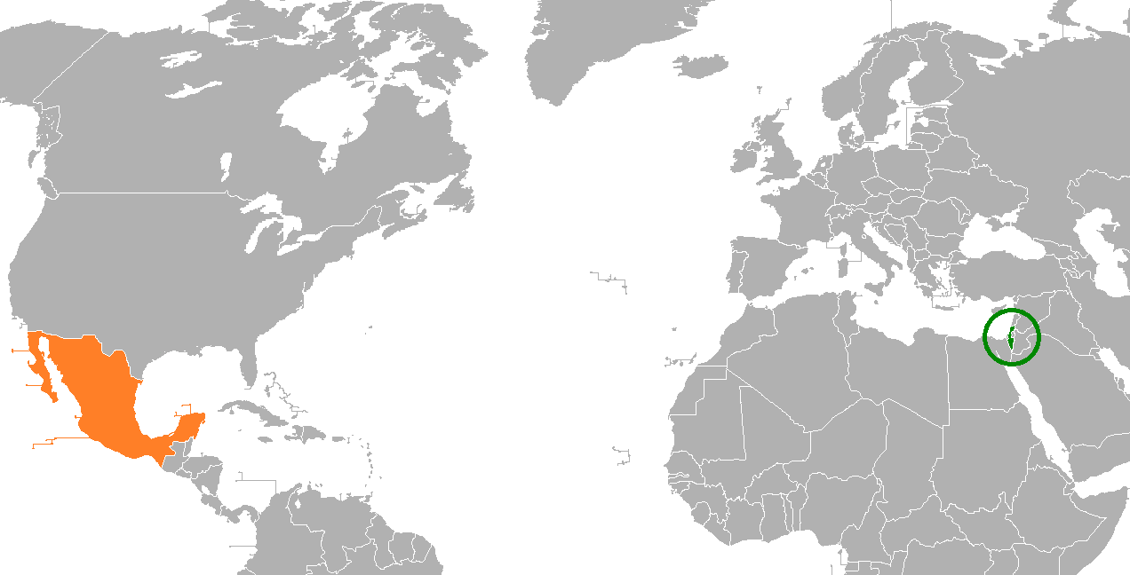 Israel Mexico Locator